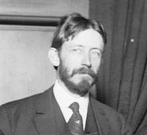 George McAneny, Borough President of Manhattan, New York City from 1910 to 1913.